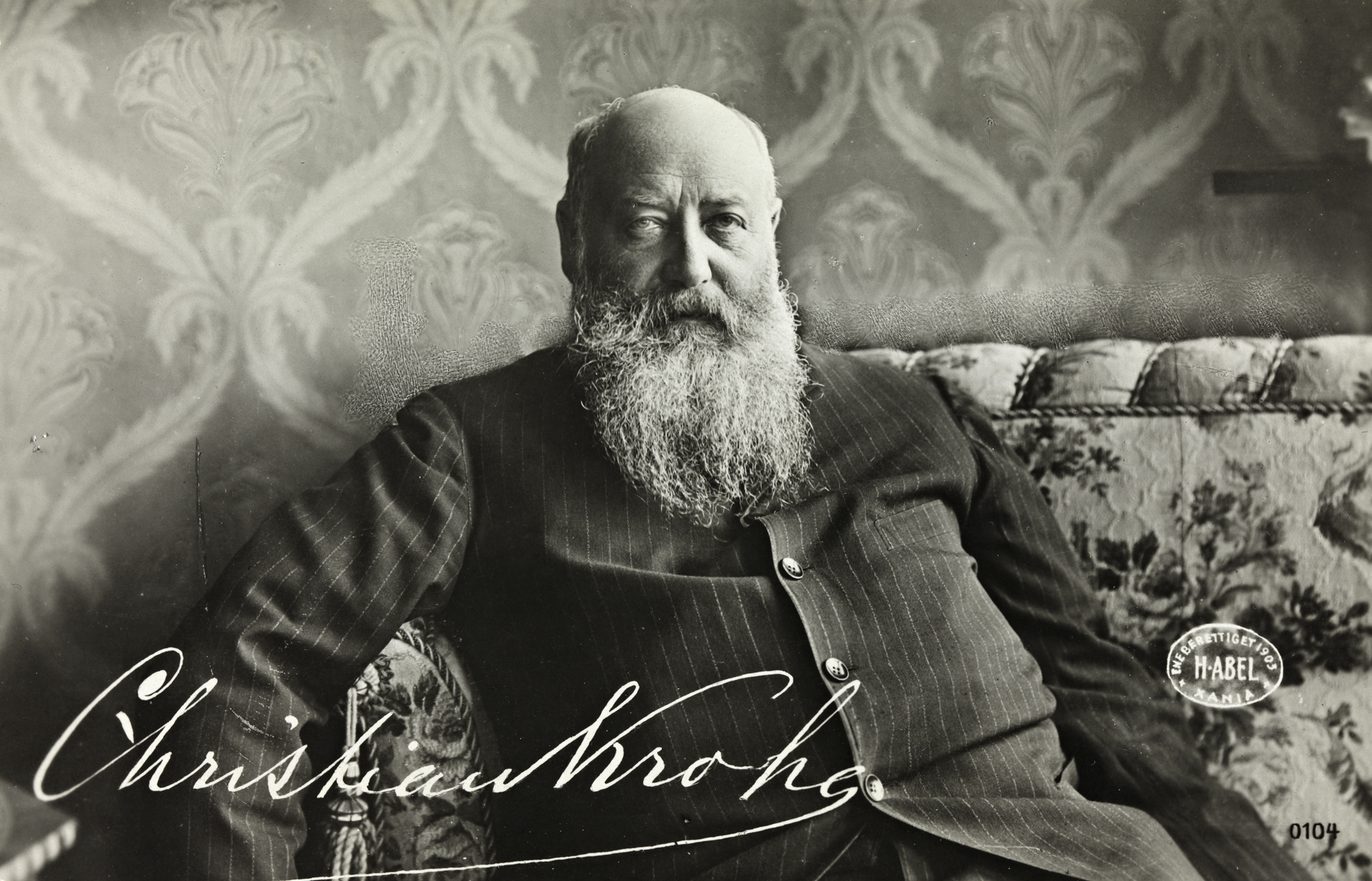 Tittel / Title: Portrett av Christian Krohg (1852-1925) Motiv / Motif: Postkort Dato / Date: ca 1903 Fotograf / Photographer: ukjent / unknown Utgiver / Publisher: H. Abel Eier / Owner Institution: Nasjonalbiblioteket / National Library of Norway Lenke / Link: Bildesignatur / Image Number: blds_05680